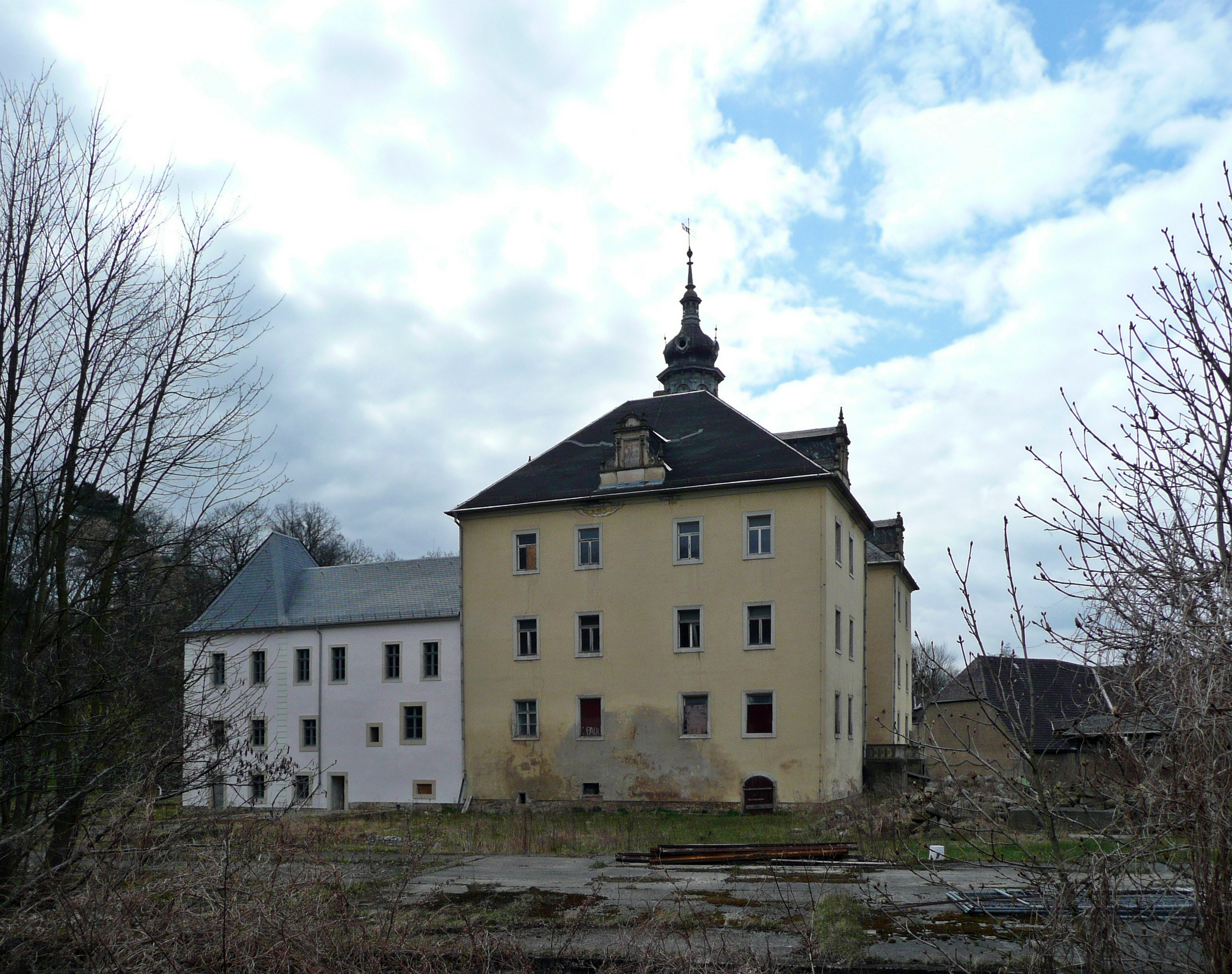 This image shows Dittersbach Palace (Schloss Dittersbach) in Dittersbach (Dürrröhrsdorf-Dittersbach).